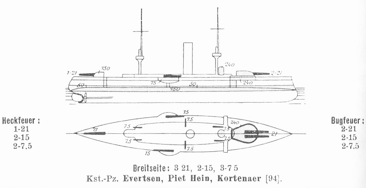 Plan of the Dutch coastal defence ship Evertsen.